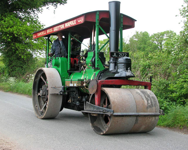 1918 Marshall 10 ton Road Roller sn 87618 (JL2172)